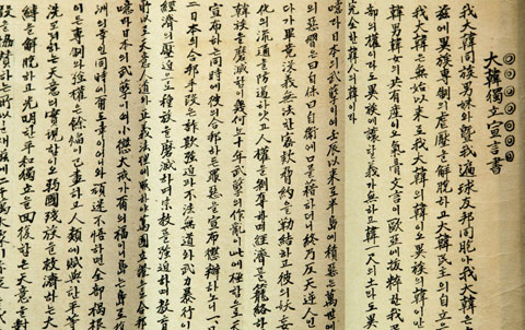 Korean Independence declaration proclaimed by Korean Righteous Army in Manchu area